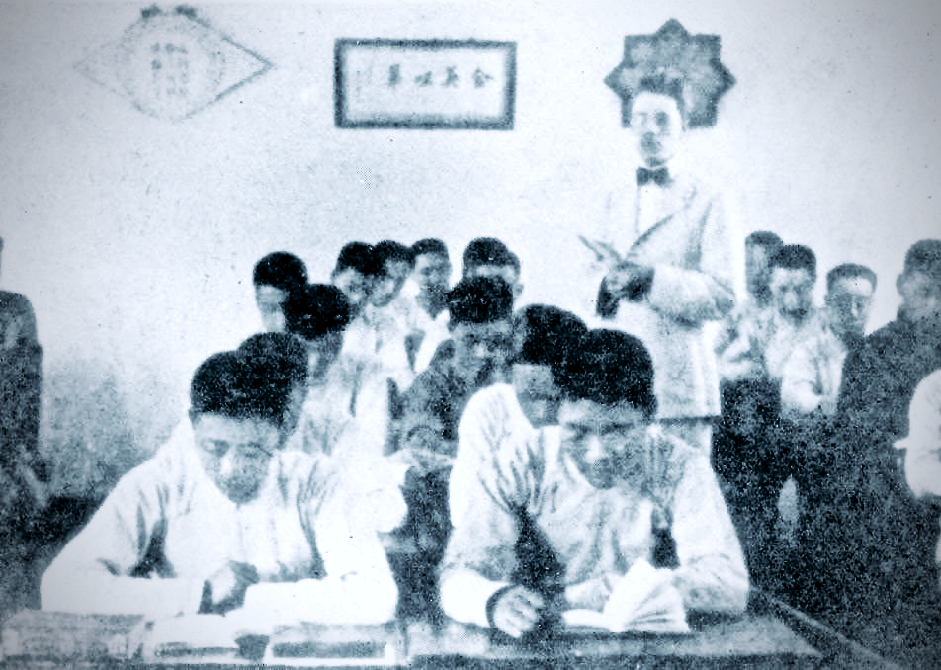 Zhou Enlai (first row, first from left) in Tianjin Nankai High School in 1916.